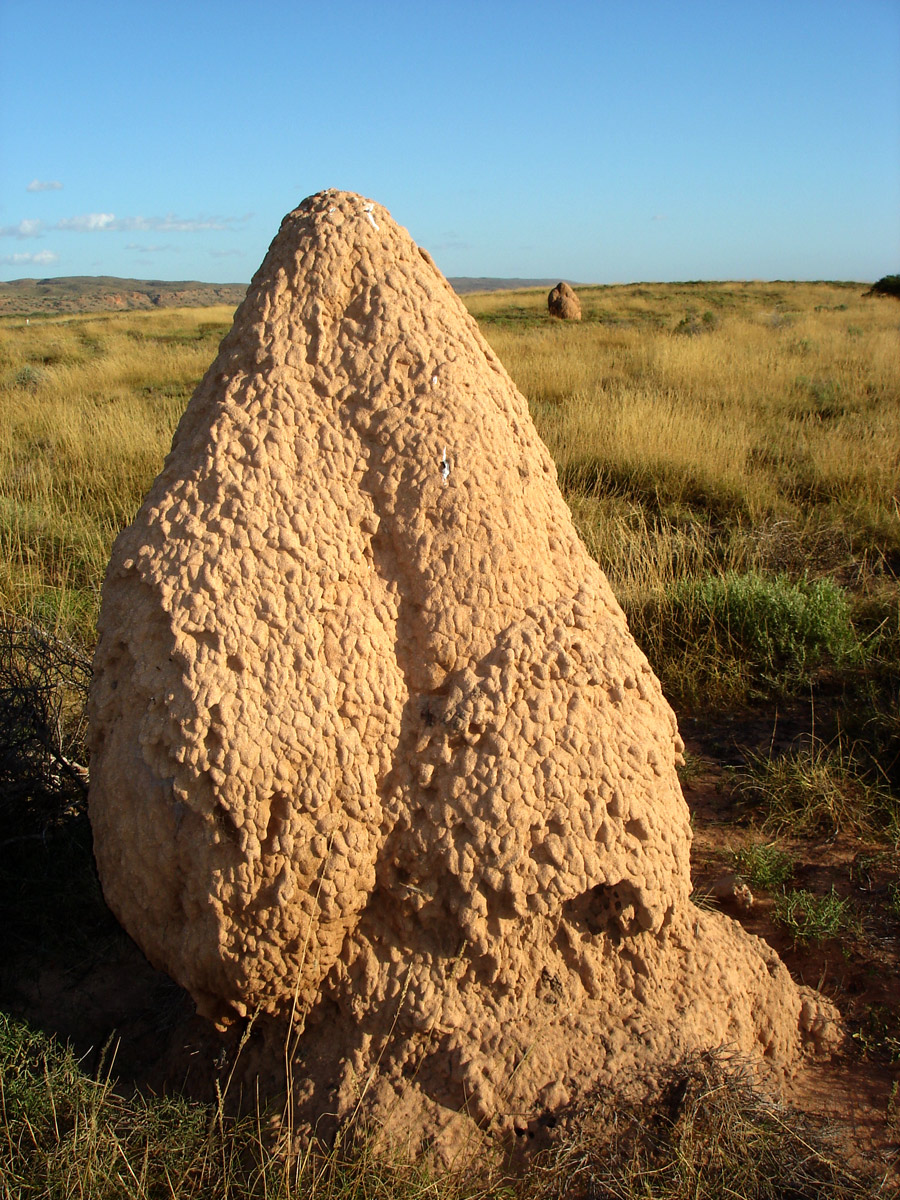 Description: Termite hill in Cape Range Nationalpark, Exmouth Australia Foto taken by Summi